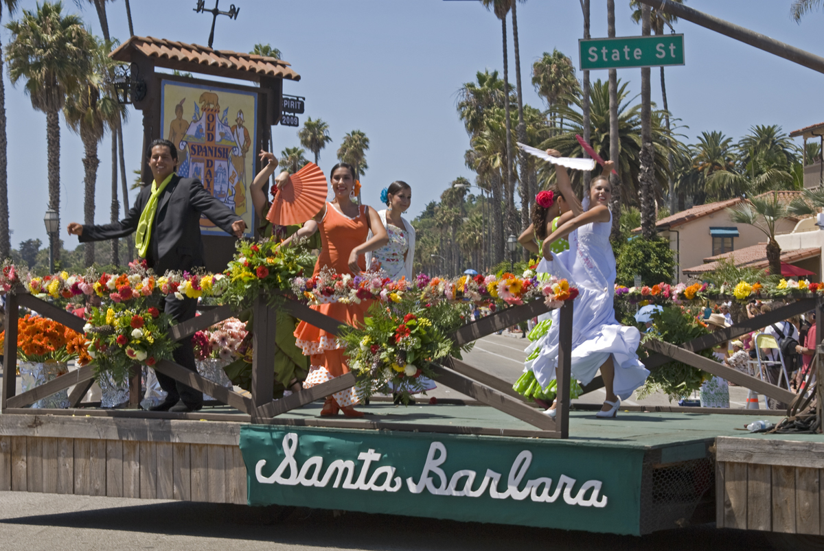 Old Spanish Days fiesta parade - Spanish dancers on a float.